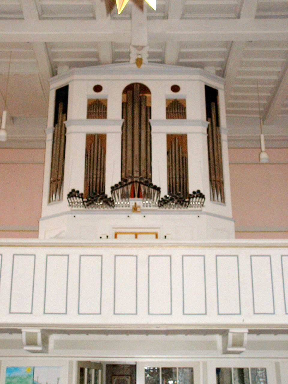 Protestant Church, Zuesch, Organ